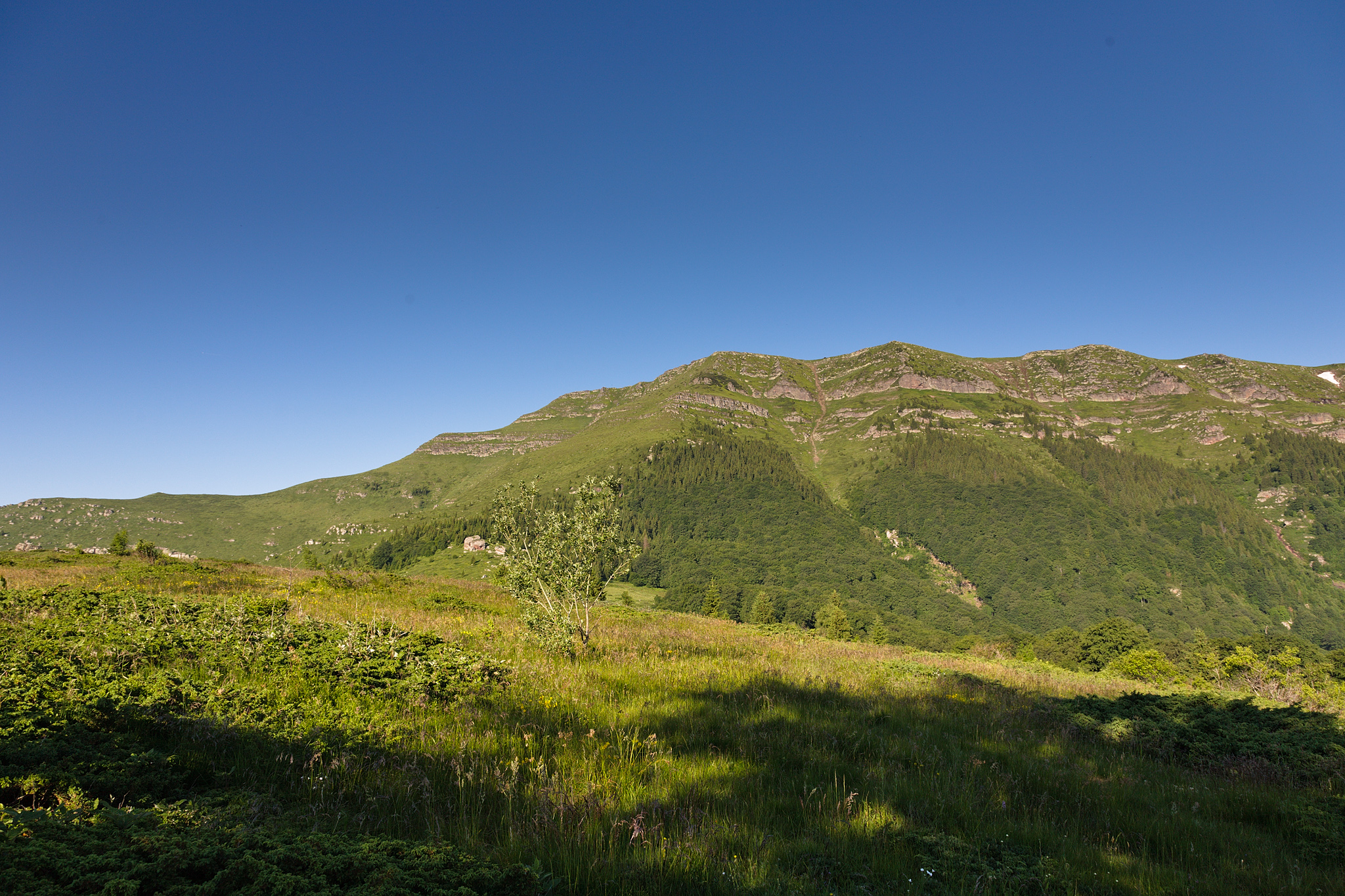 Kopren peak in Stara planina mountains, Bulgaria